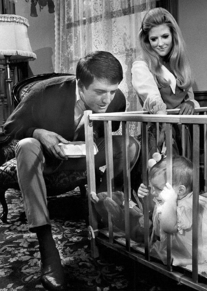 Photo of Mike Minor (Steve Elliott) and Meredith MacRae from the television program Petticoat Junction. Babysitting Dad Steve gets a little help from his sister in law, Billie Jo.